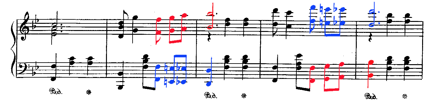 "B" Theme from Bethena, A Concert Waltz, by Scott Joplin, bars 36-40.